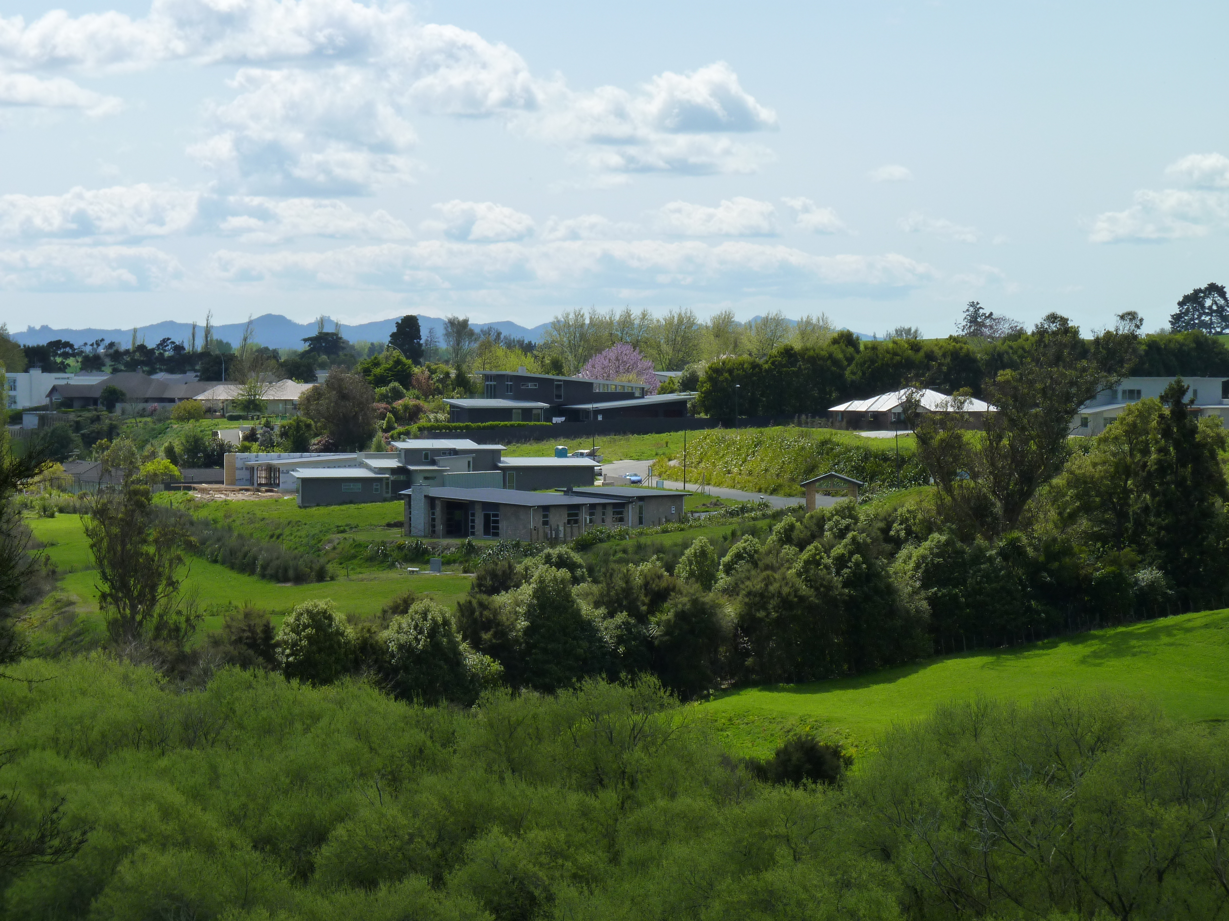 St Petersburg development in northeast Hamilton.